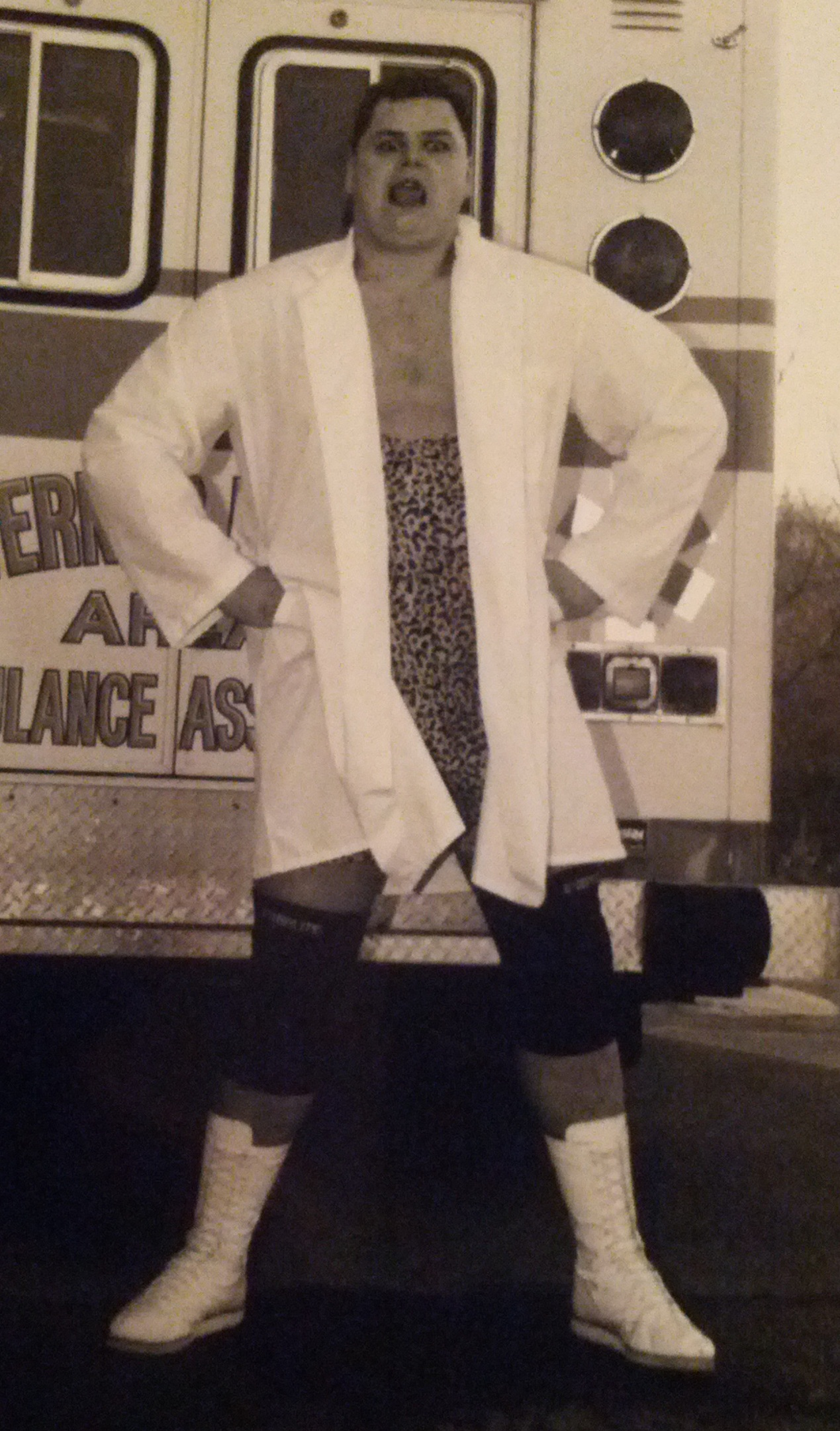 Doctor Johnny first promo picture